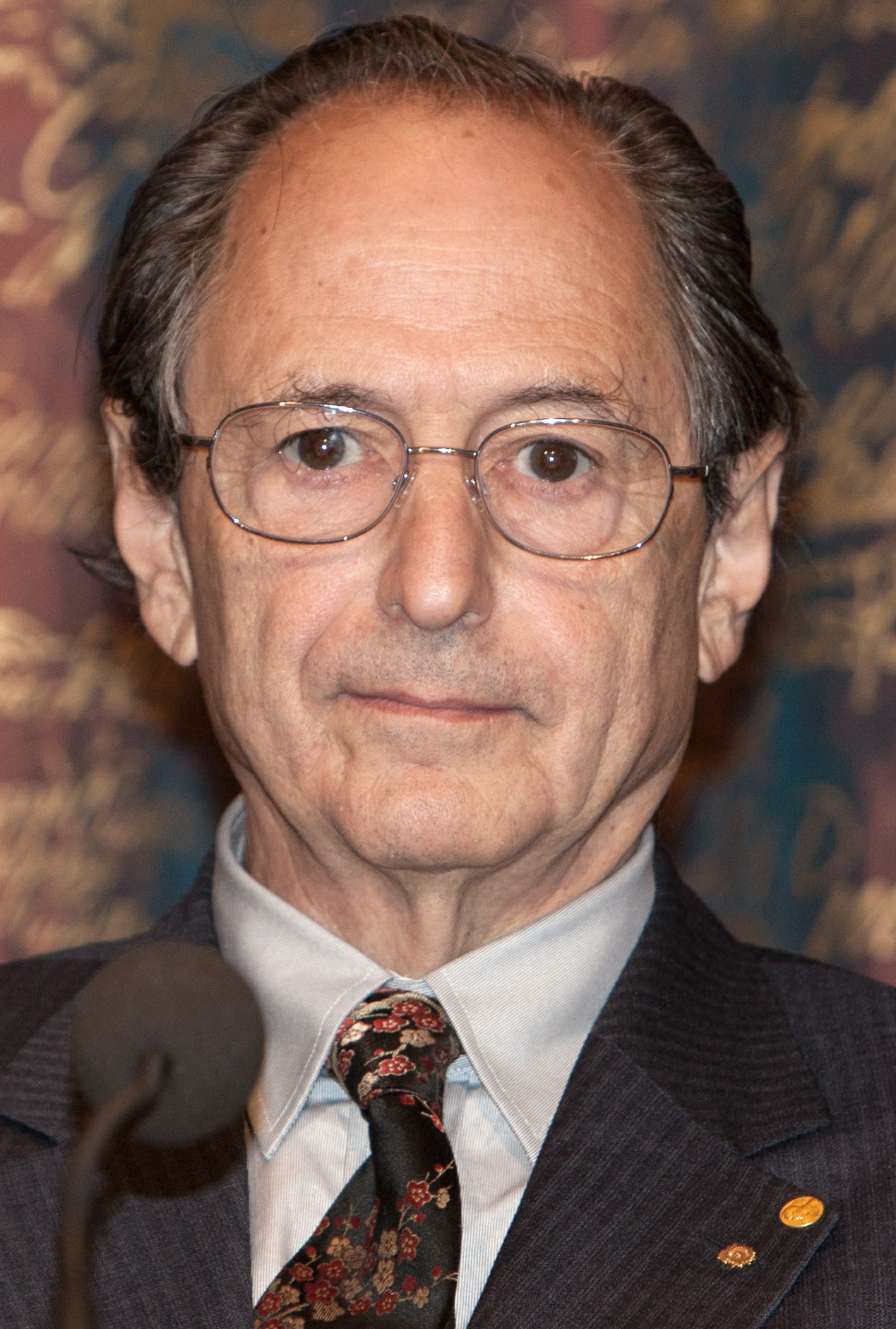 Todd Morrow, Eric Money and Michael Levitt - May, 1989